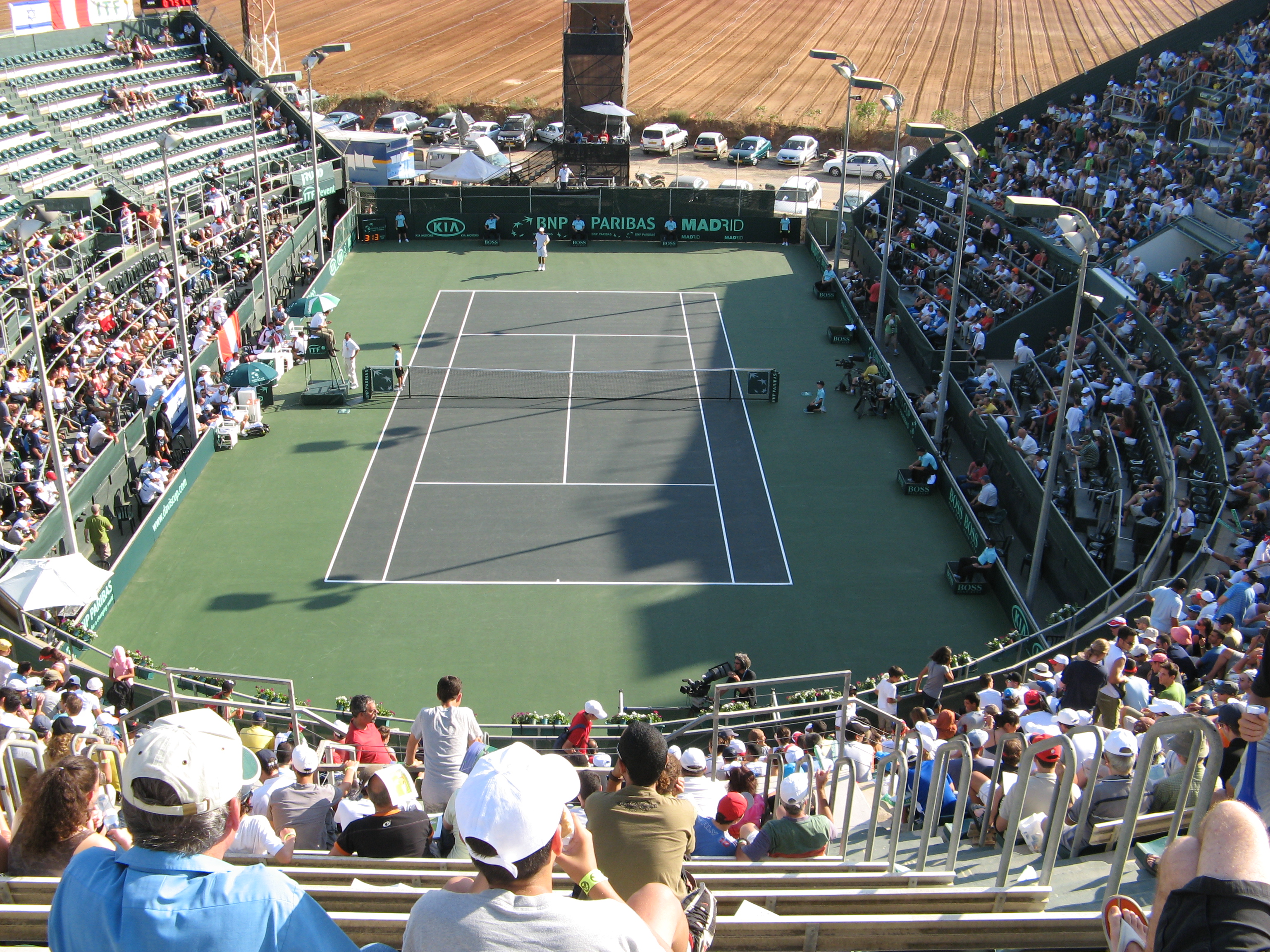 Israeli Tennis 'Canada' Stadium - a picture from gate 4